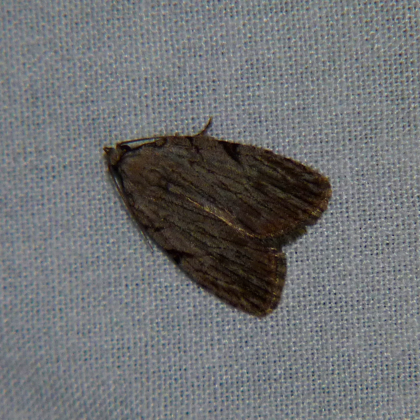 Three-lined Balsa Moth (Balsa tristrigella) – Hodges#9663 BugGuide / MPG